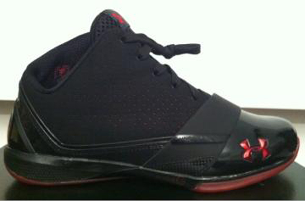 Picture of Under Armour Black Ice